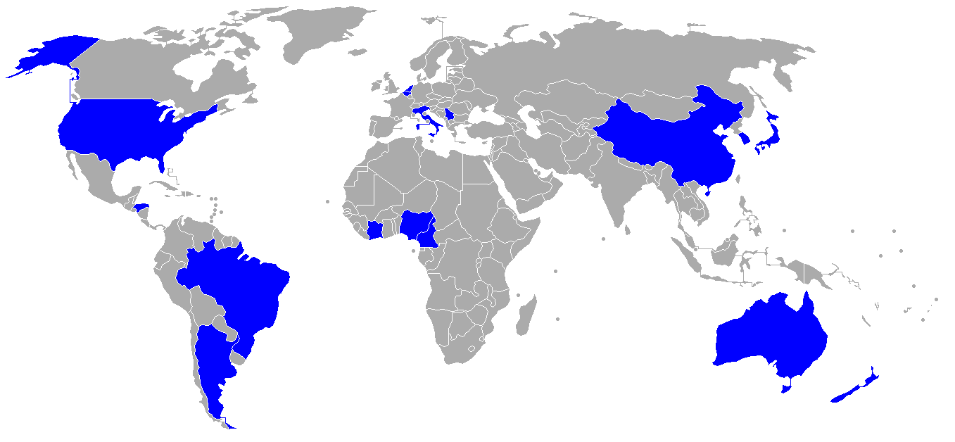 Map, showing countries which participate in men's football at the 2008 Summer Olympics